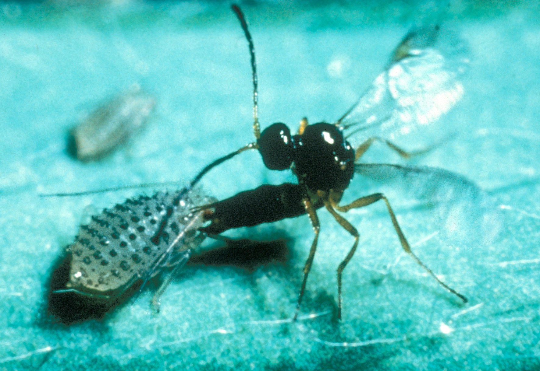 Tha parasitic wasp Trioxys complanatus is a biological control agent introduced to combat the spotted alfalfa aphid.